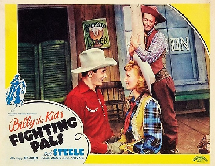 Poster del film Billy the Kid's Fighting Pals